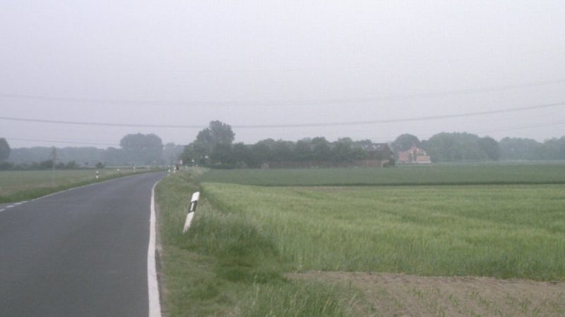 View of Donk, Viersen, Germany